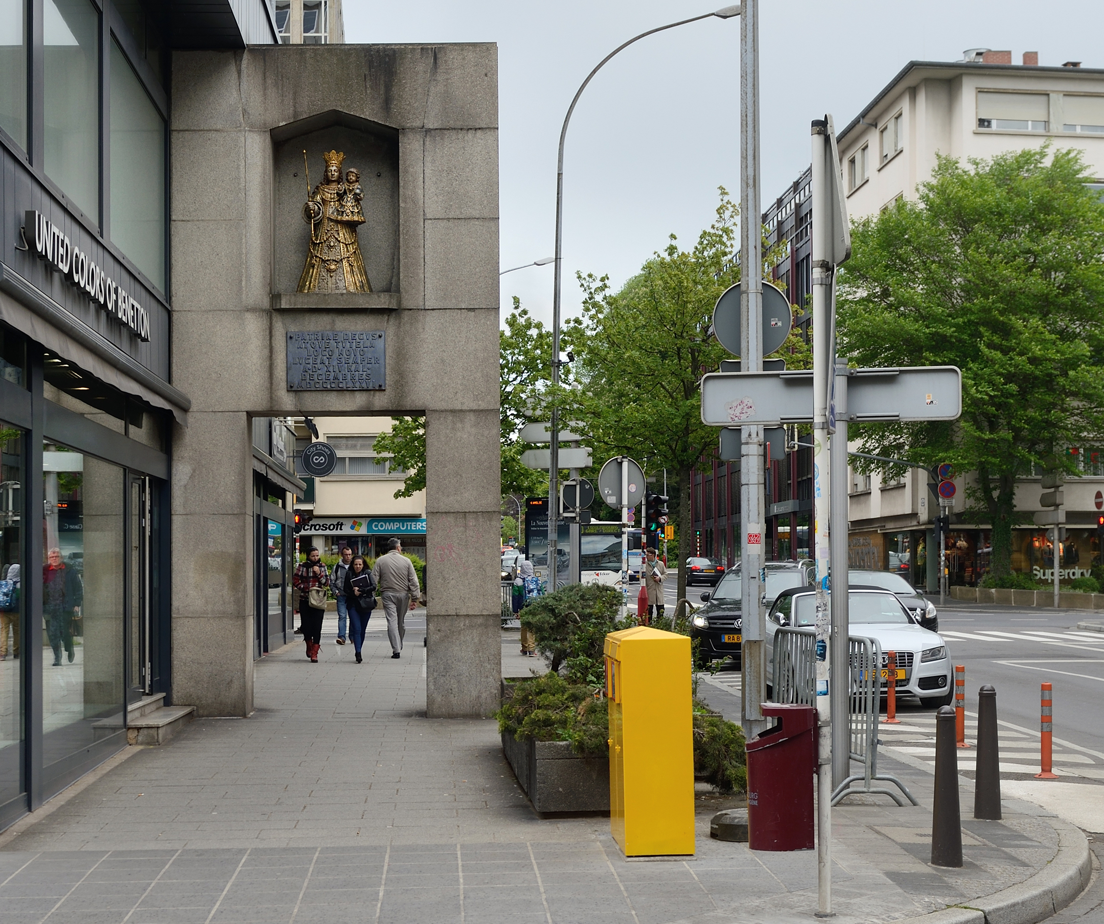 Madonna, Consolatrix Afflictorum with her child Jesus in avenue de la Porte-Neuve in Luxembourg City.